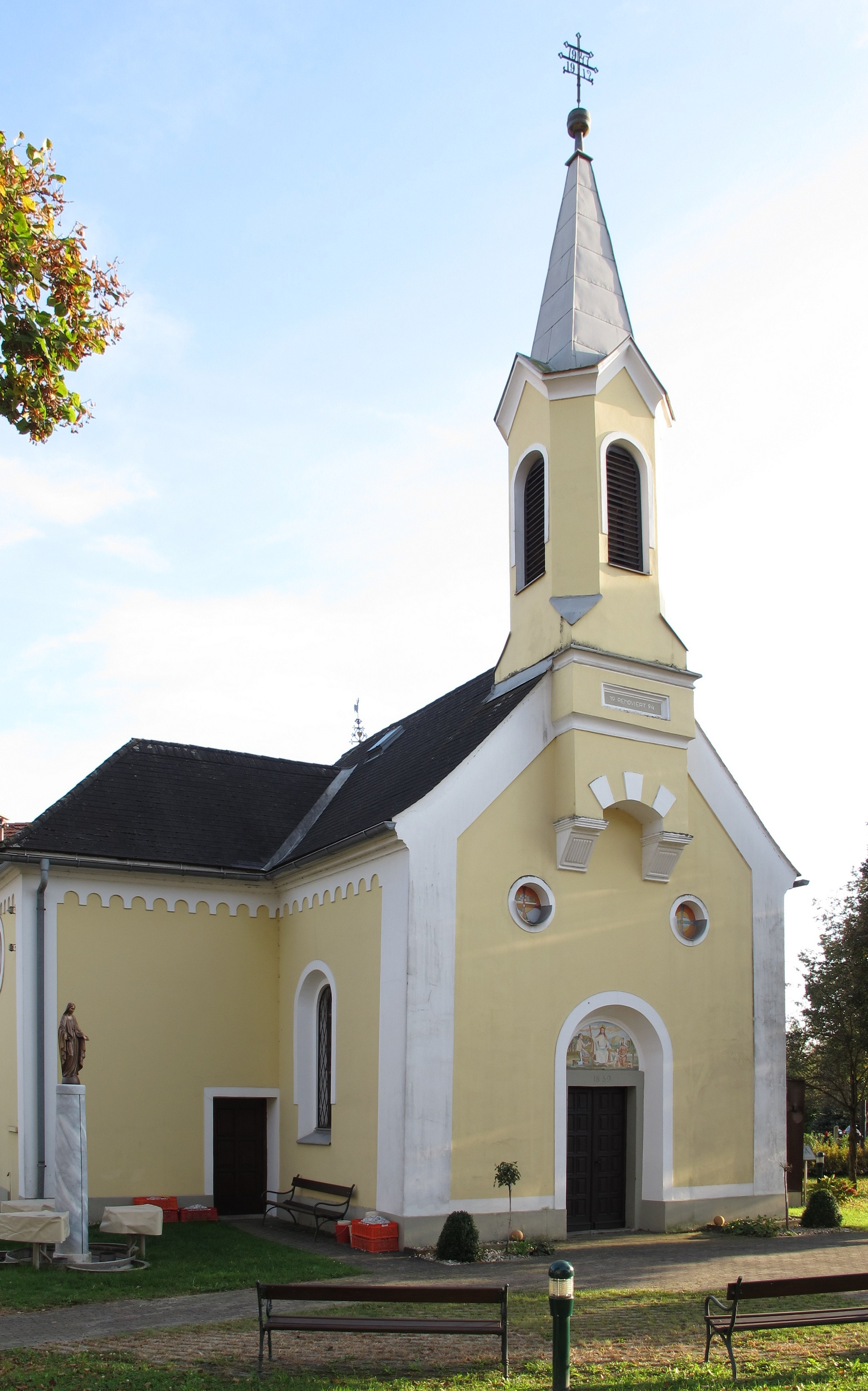 Ortskapelle Weinberg